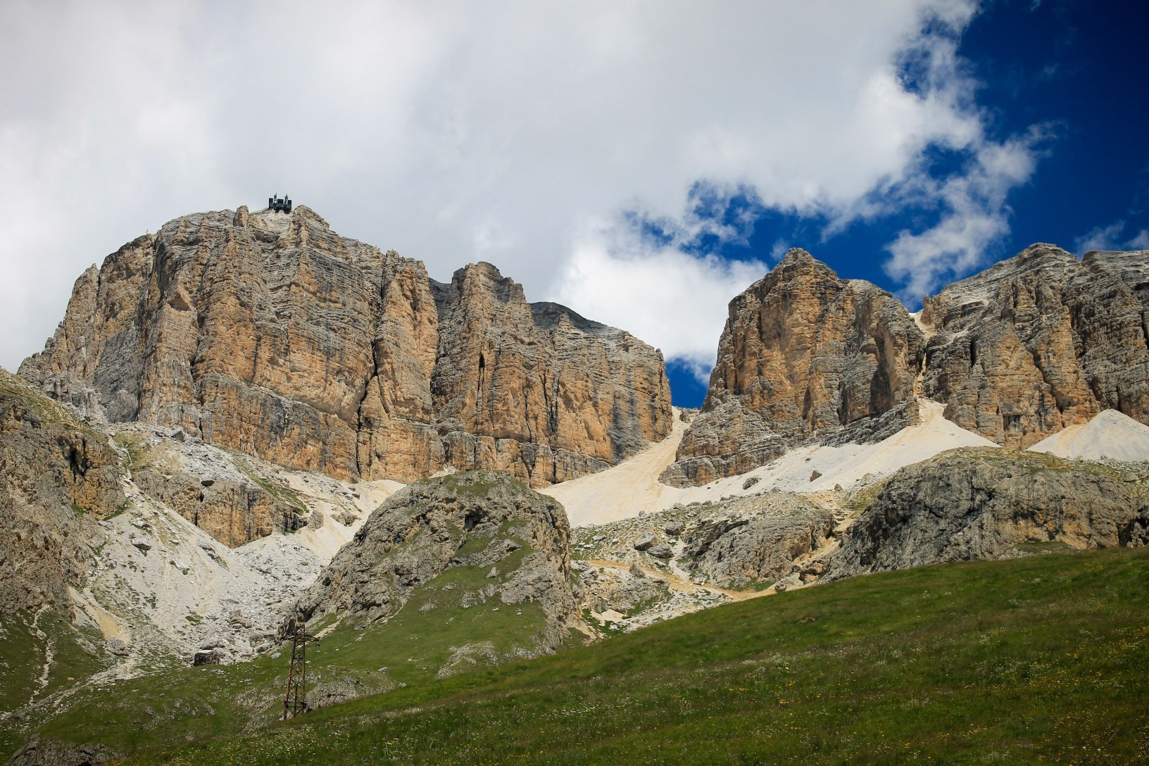 Sass Pordoi (on the left) with the cable car station